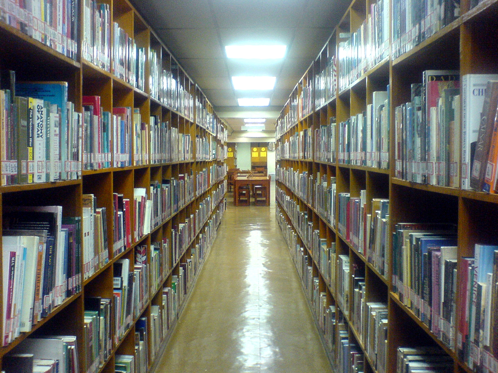 Library at the De La Salle College of Saint Benilde.